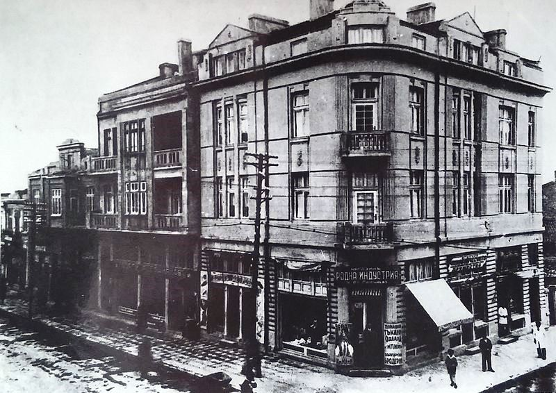 Varna. Photos of "Knyaz Boris" boulevard.